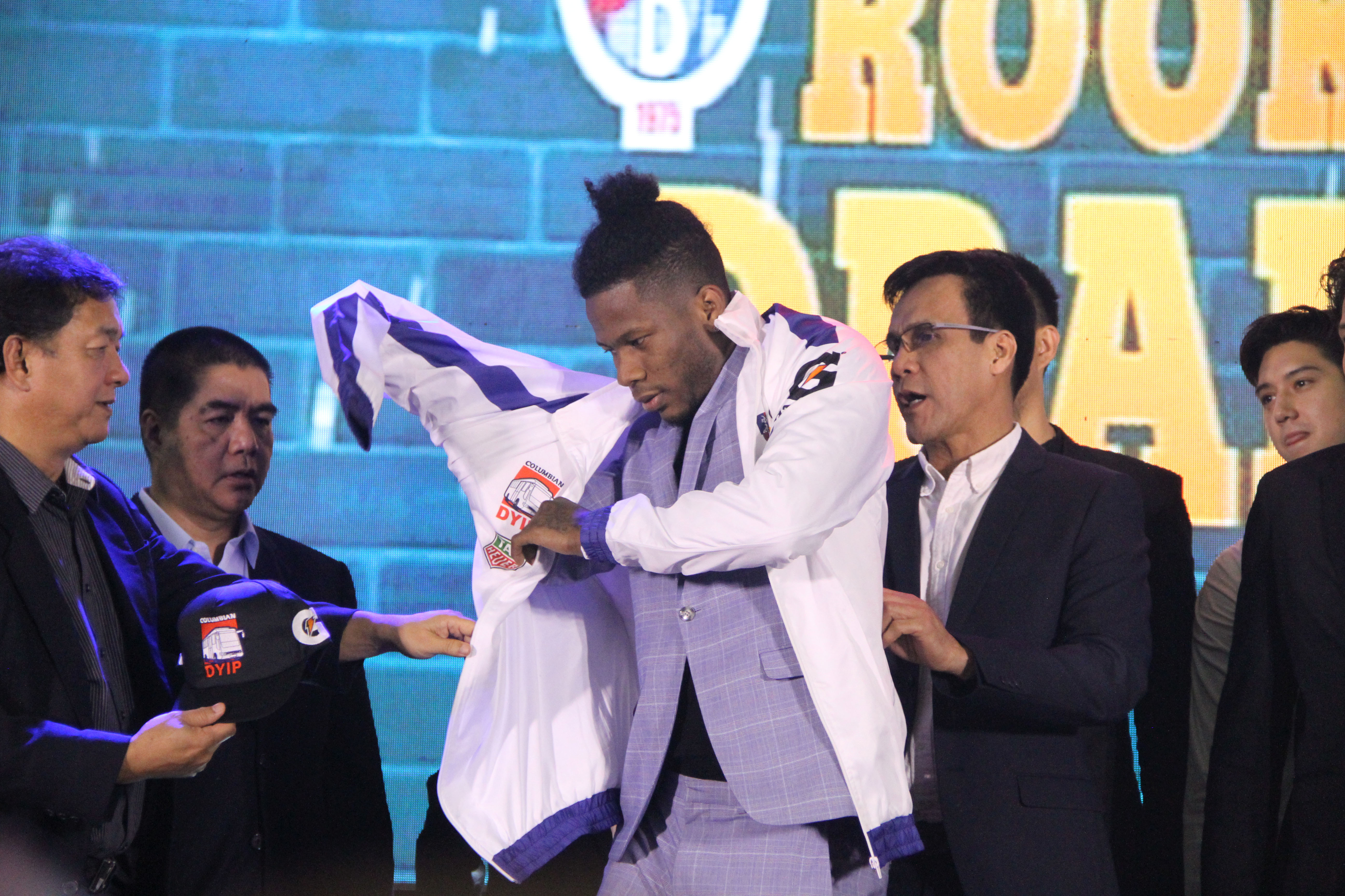 Fil-foreigner CJ Perez receives the Columbian Dyip team jacket during the first round of the 2018 PBA Rookie Draft at the Robinson's Place Manila on Sunday (December 16, 2018)